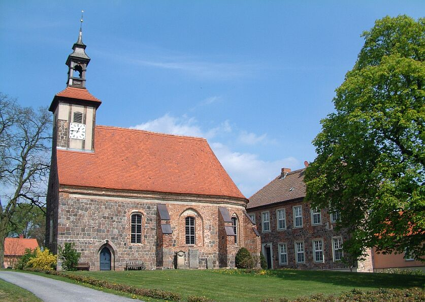 Commandery church Lietzen east of Berlin, Germany